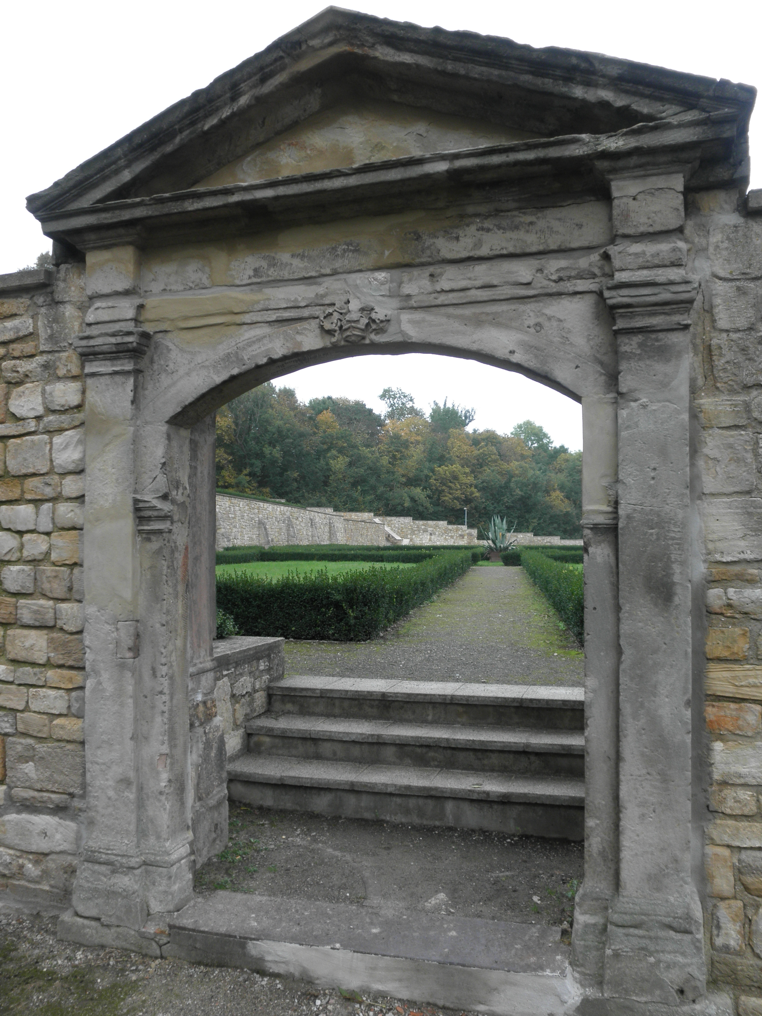 Barock Garden St. Ulrich, Mücheln (Geiseltal)